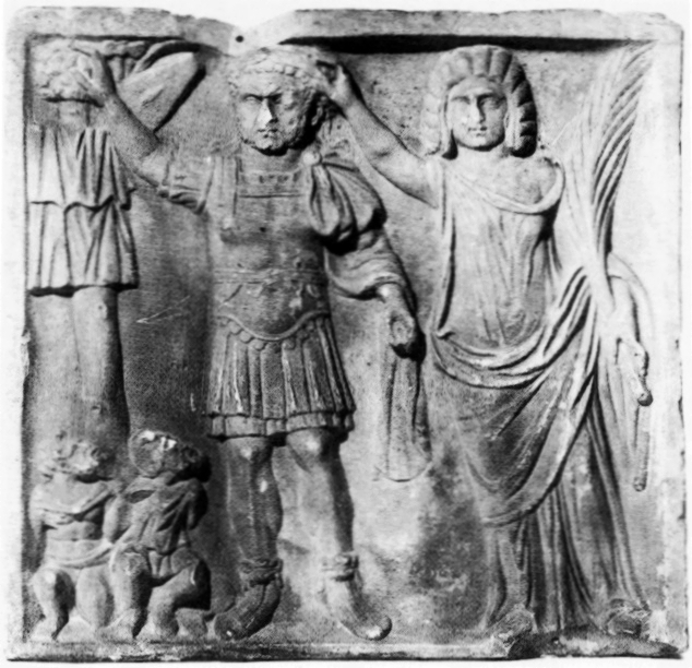 Photograph